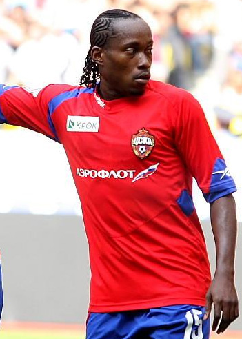 Nigerian right wing back Chidi Odiah